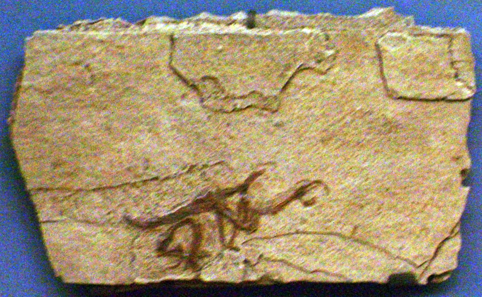 Iberomesornis romerali fossil, Muséum national d'histoire naturelle, Paris.